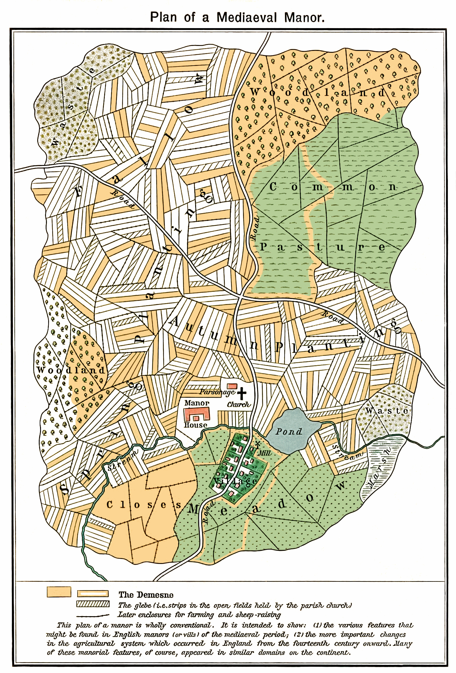 Plan of a fictional mediaeval manorThe mustard-colored areas are part of the demesne, the hatched areas part of the glebe.